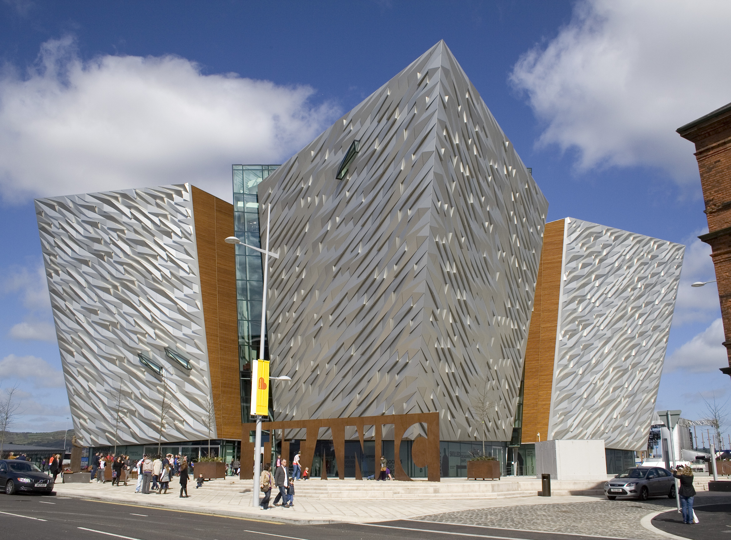 Side view of Titanic Belfast